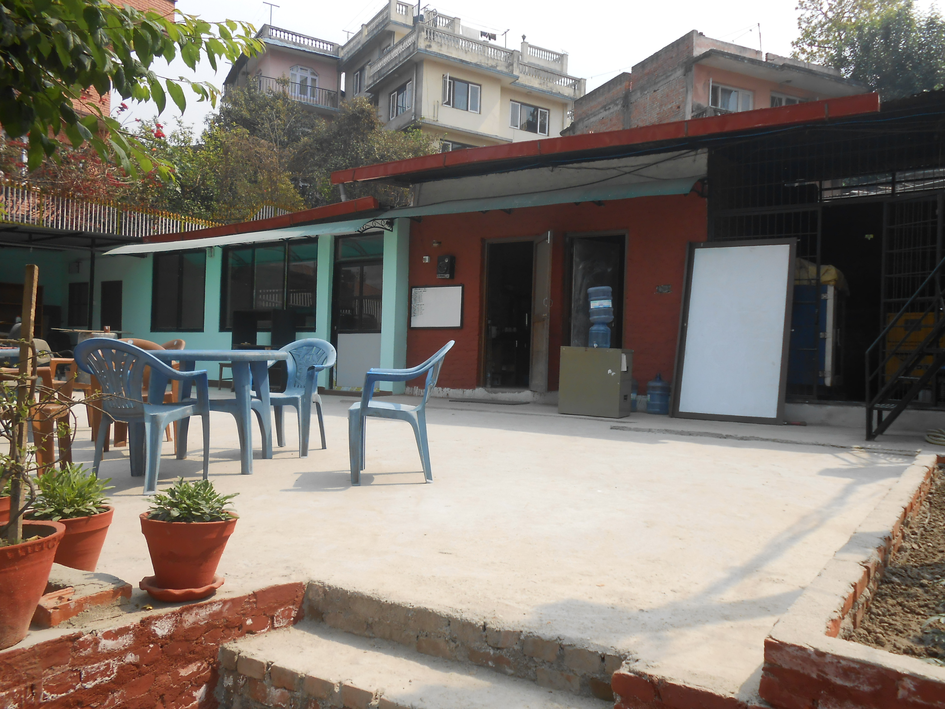 Nepal Forum of Environmental Journalists Canteen & Meeting hallनेपाली: नेपाल वातावरण पत्रकार समहको मिटिङ र भोजन गृह